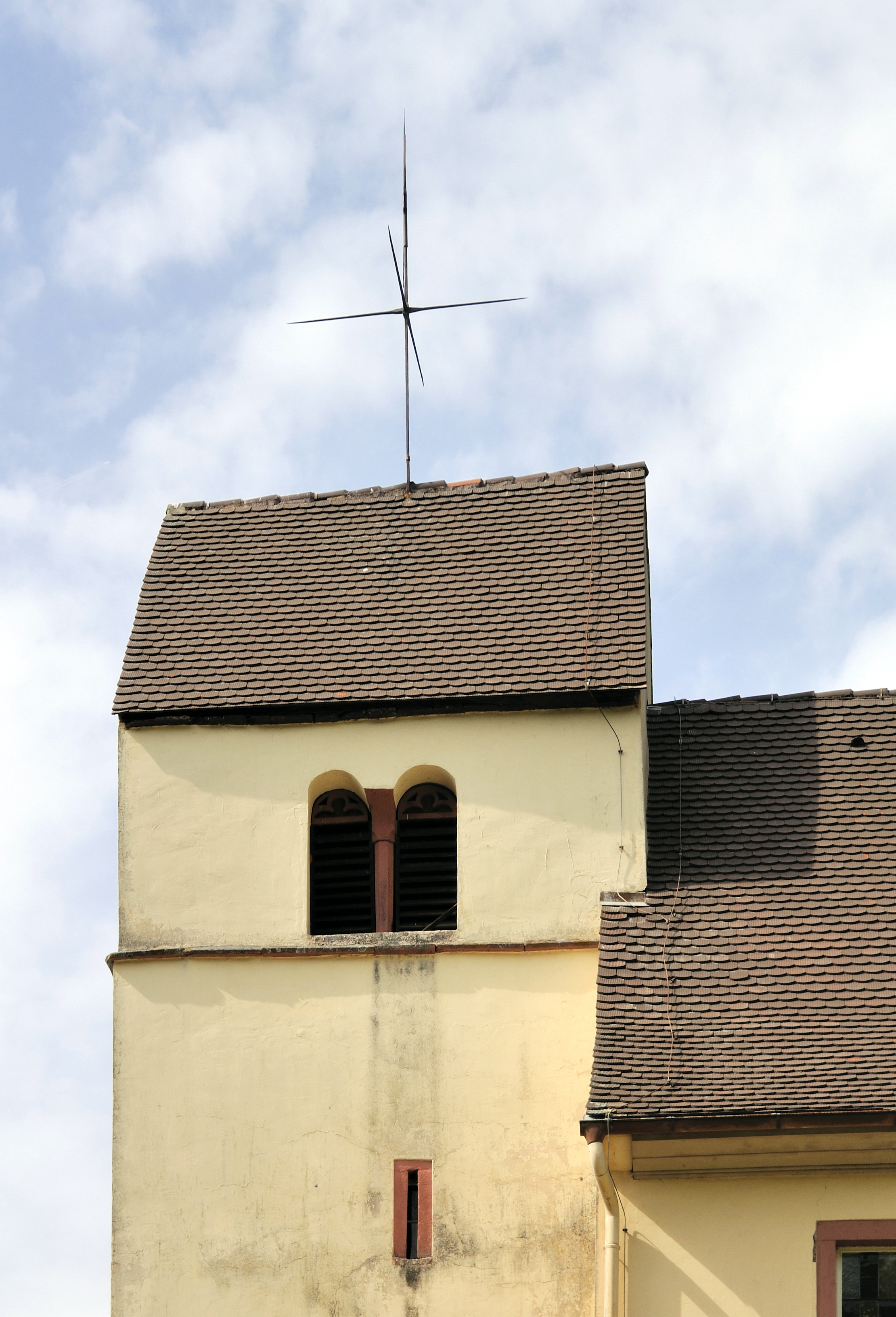 Kaltenbach: Protestant Church